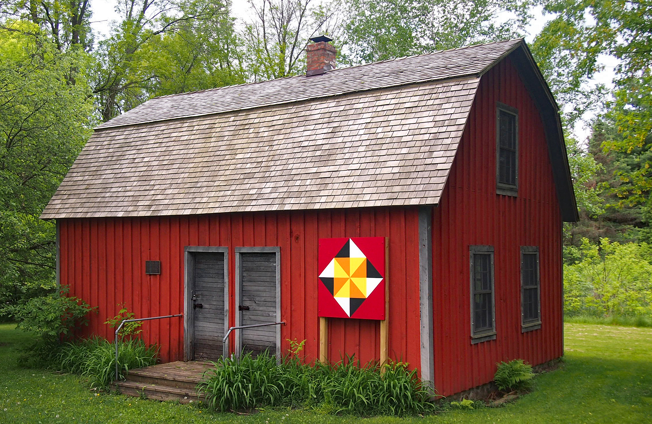 Johannes Erickson House, 14020 195th St, Scandia, Minnesota, USA. Viewed from the northeast.